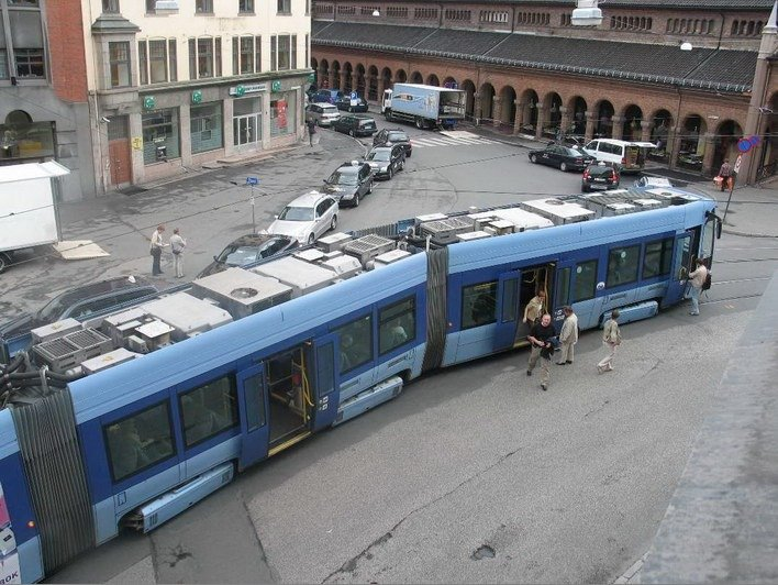 SL95 trams of the Oslo Tramway at Kirkeristen